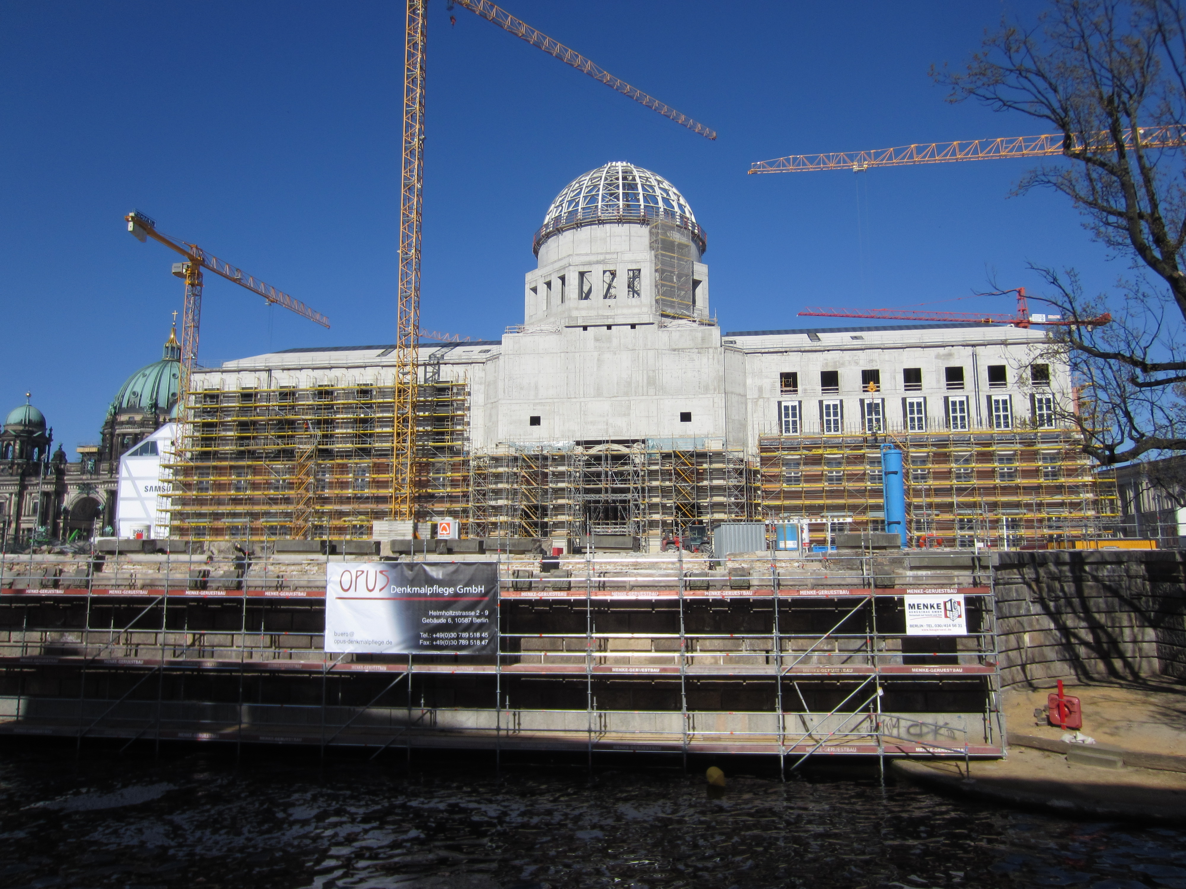 Berlin, Germany (April 2016)